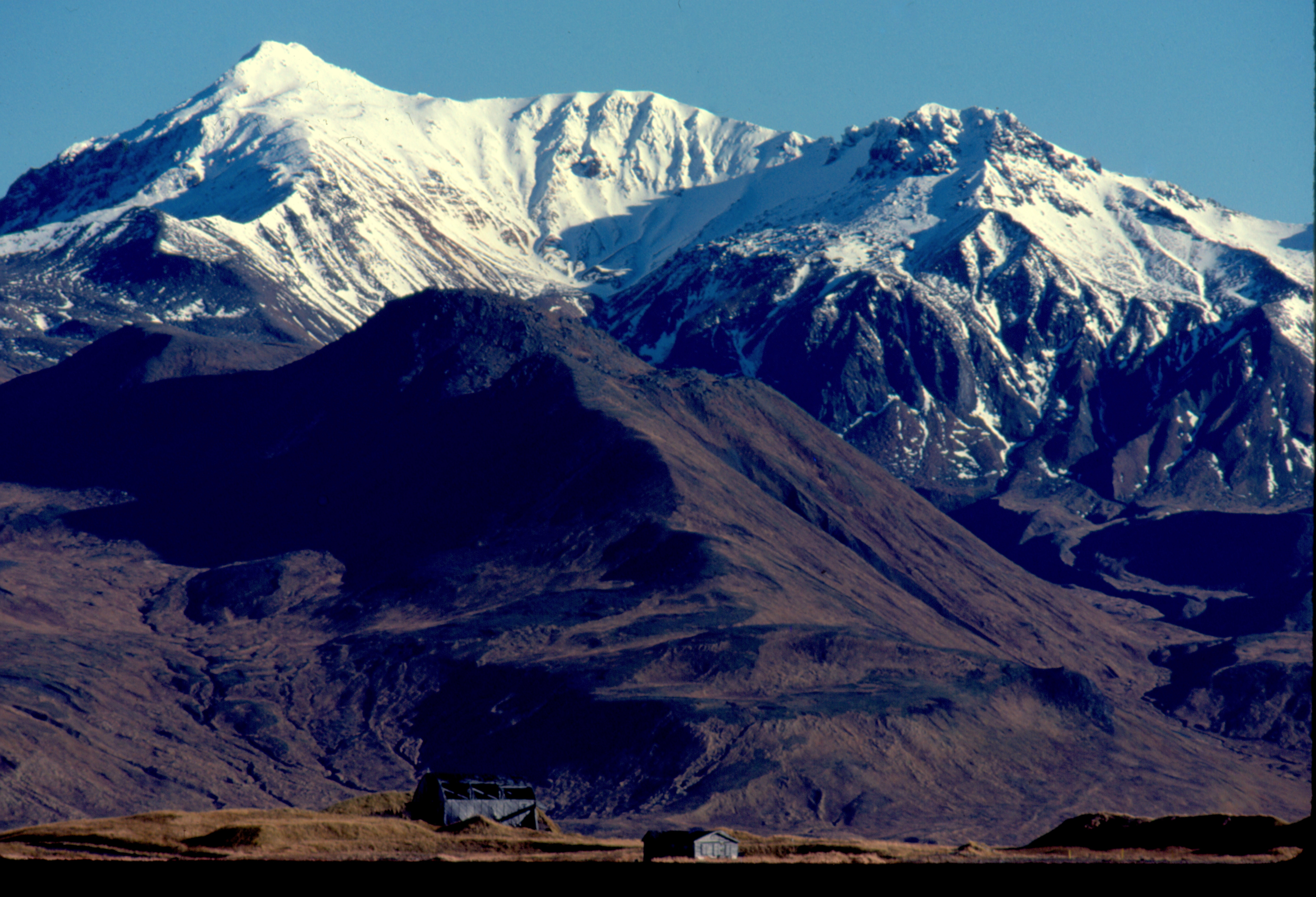 This picture of Mount Moffett on Adak Island was taken around 1990 while I was attached to the Naval Security Group Activity.